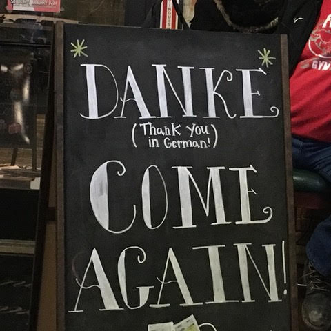 This sign implies the business is associated with Germany, though not in Germany. It is teaching English speakers a German word, yet does not provide pronunciations or additional context.